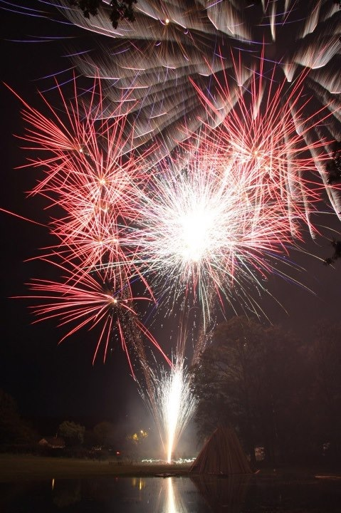 Photo taken from crowd line across the lake